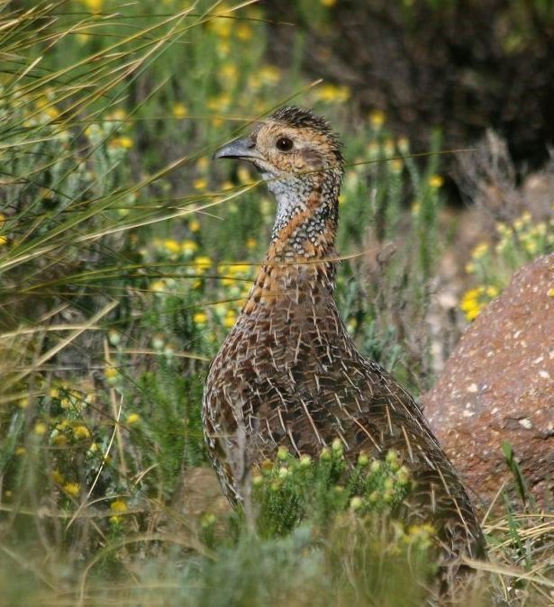 Grey-winged Francolin Scleroptila africana (syn. Francolinus africanus). Location: Black Mountain Pass, Lesotho